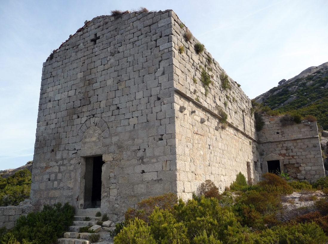 Monastero di Montecristo